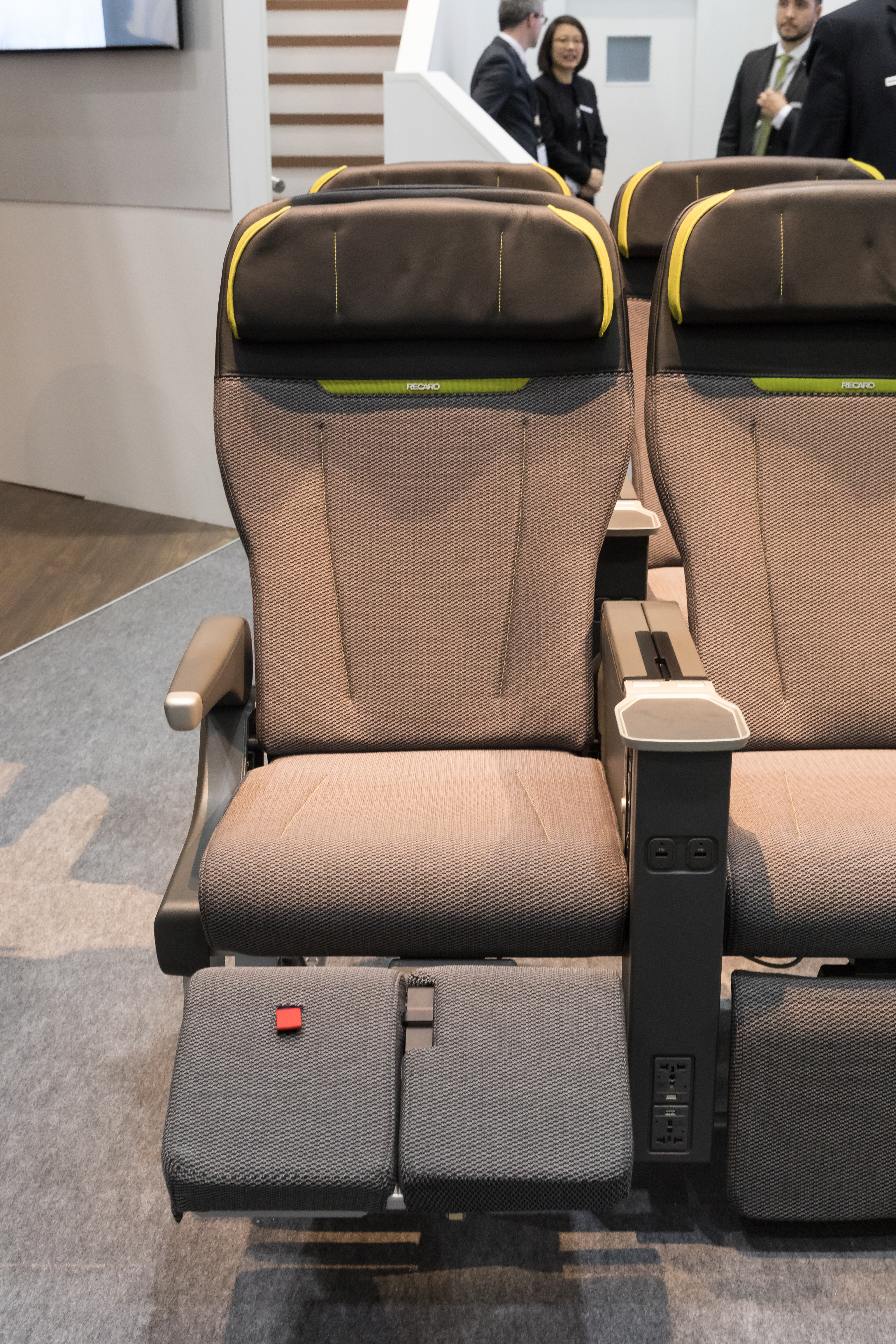 Recaro PL3530 Premium Economy Class seat at Passenger Experience Week 2018, Hamburg